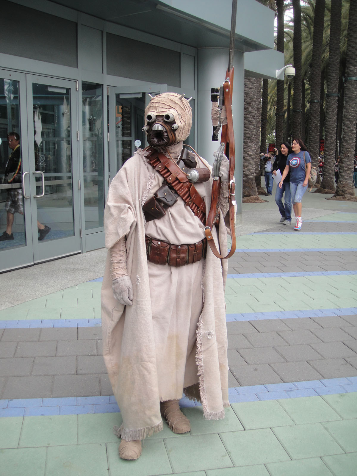 photo 2012 Pop Culture Geek taken by Doug Kline If you're interested in higher resolution versions of my images, contact me via my profile page.